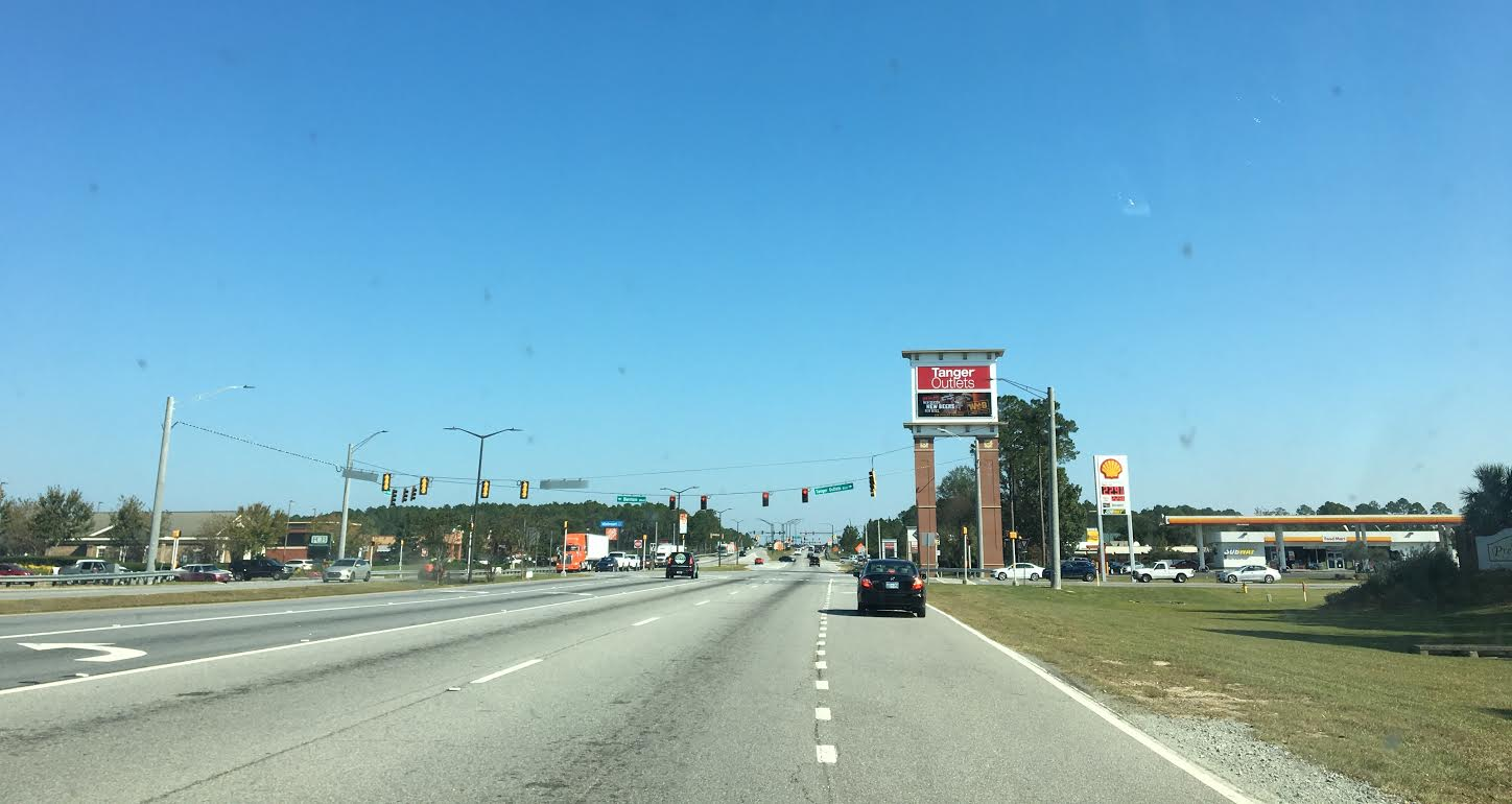 Highway 80 in Pooler, GA